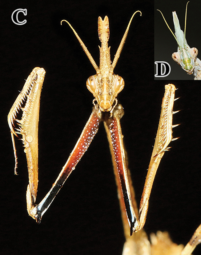 Praying mantids with records in Iran. A. Adult Bolivaria brachyptera Pallas, 1773, with raised and opened forelimbs in a deimatic display. B. Adult Holaptilon brevipugilis Kolnegari, 2018. C. Empusa hedenborgii Stal, 1877, with opened forelimbs. D. Conehead mantis Empusa pennicornis (Pallas, 1773). Photo credit: M. Kolnegari.